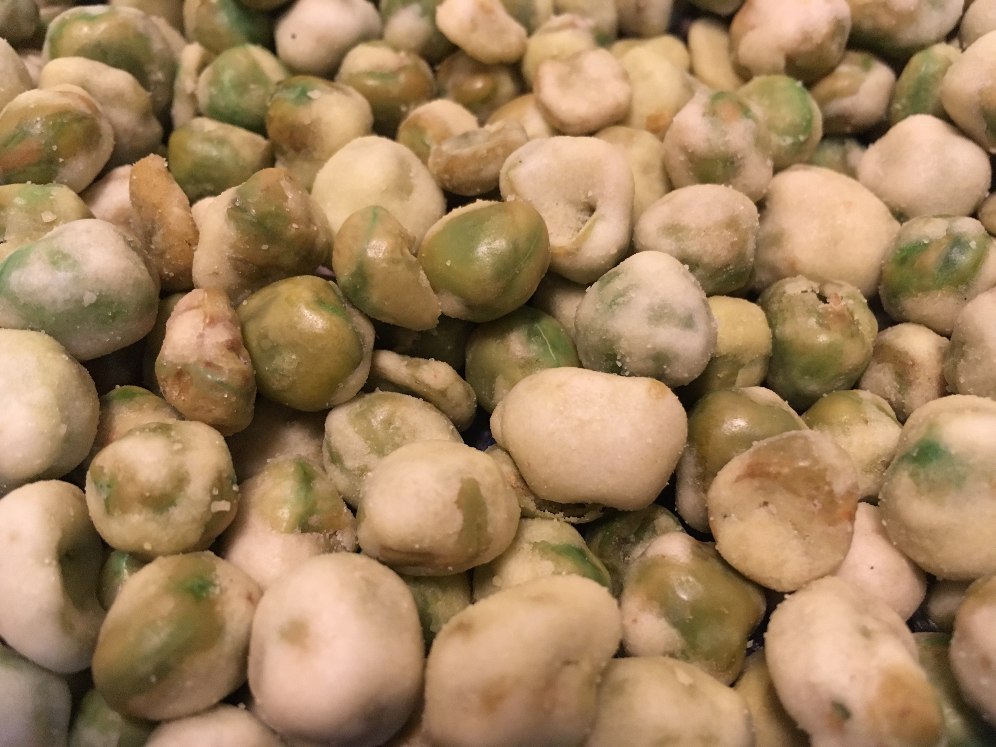 Wasabi Peas